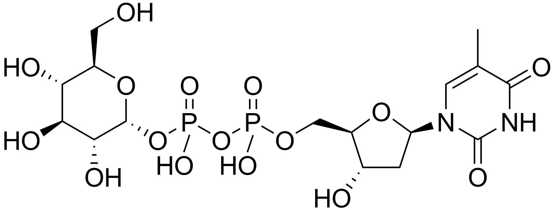 chemical structure of thymidine diphosphate glucose